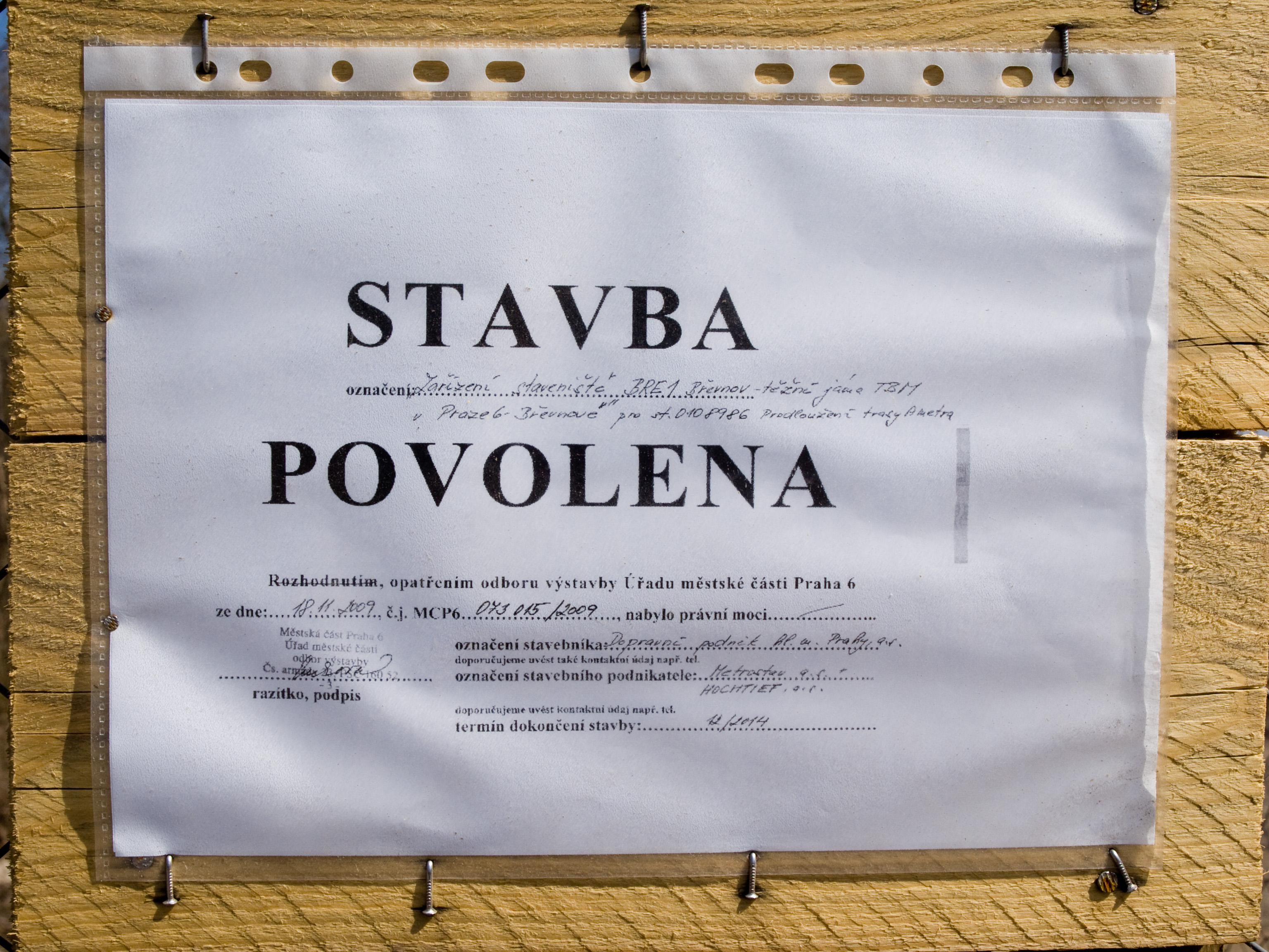 Construction of Vypich metro station, Vypich, Prague 6